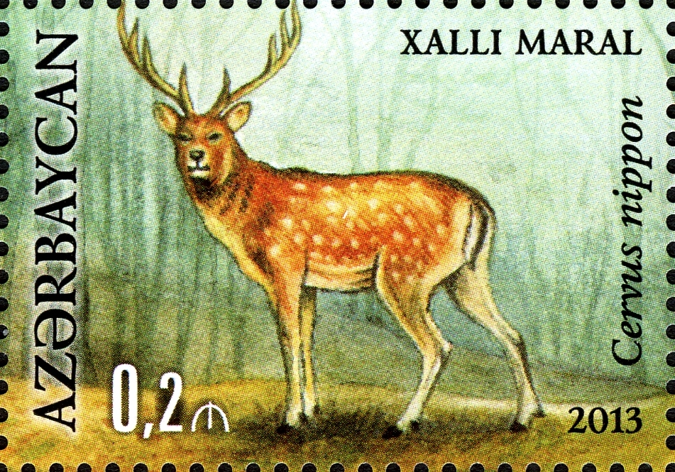 Hirkan National Park. N 1122 - 20 qapik. Sika deer (Cervus nippon)